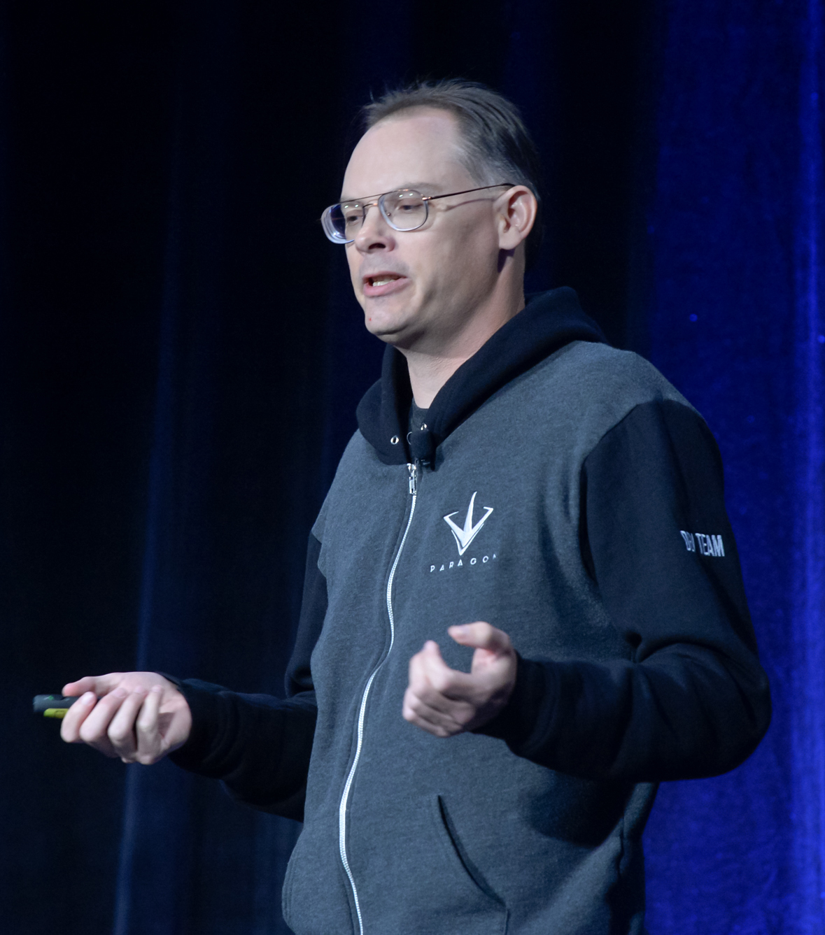 Epic Games' Opening Session Tim Sweeney (Epic Games) and Special Guests Wednesday, March 16 | 9:30am - 10:30am | Room 3001, West Hall